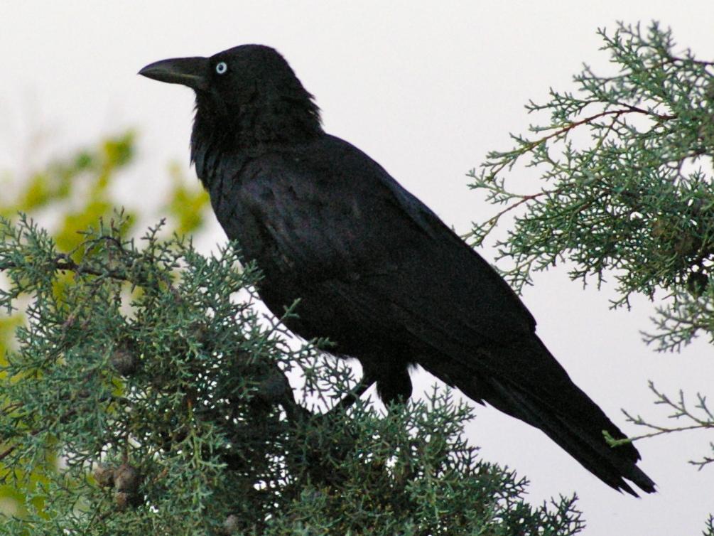 Corvus coronoides with simple head posture